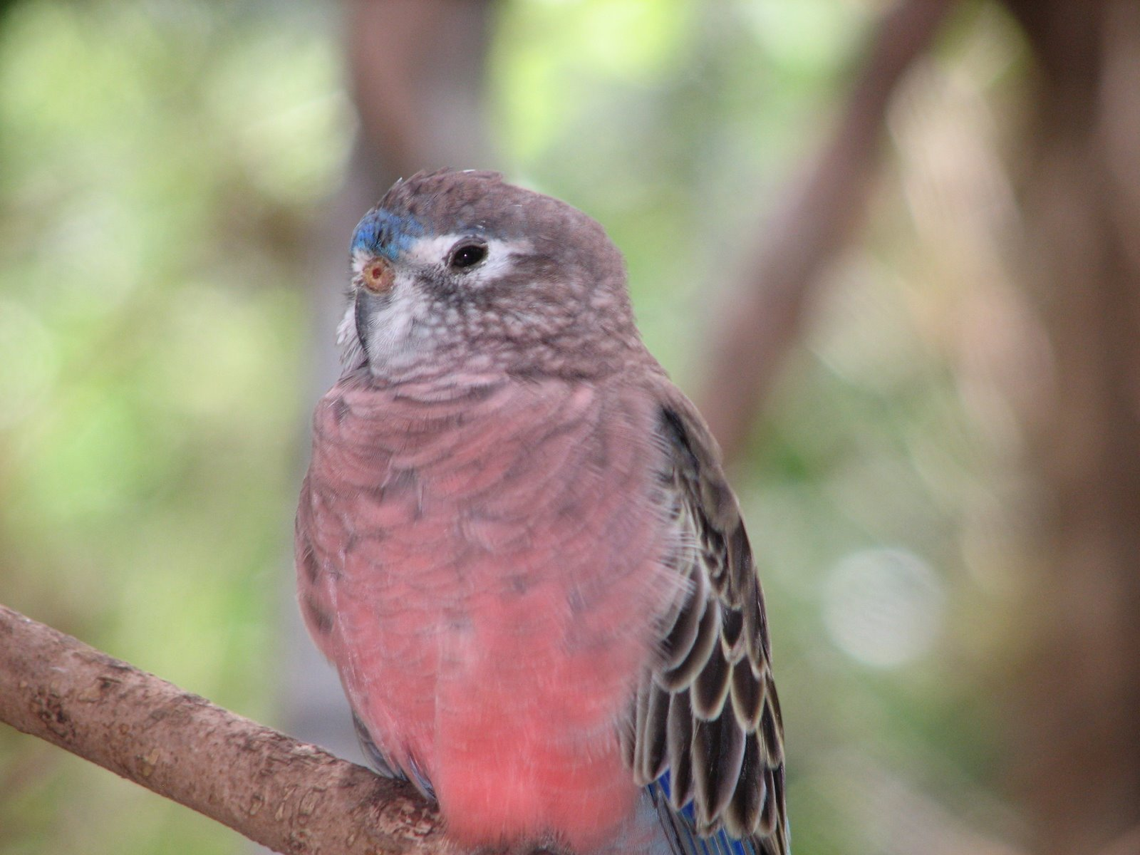 A male Bourke's Parrot at the Flying High Bird Sanctuary, Apple Tree Creek, Queensland, Australia.